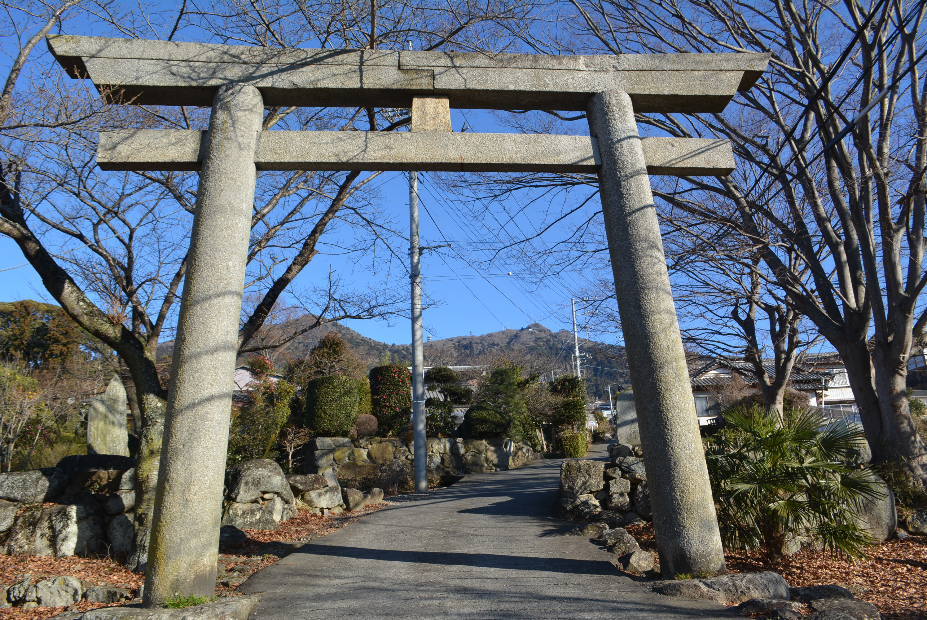 Tsukubasan Shinto shrine,first torii,Tsukuba city,Japan